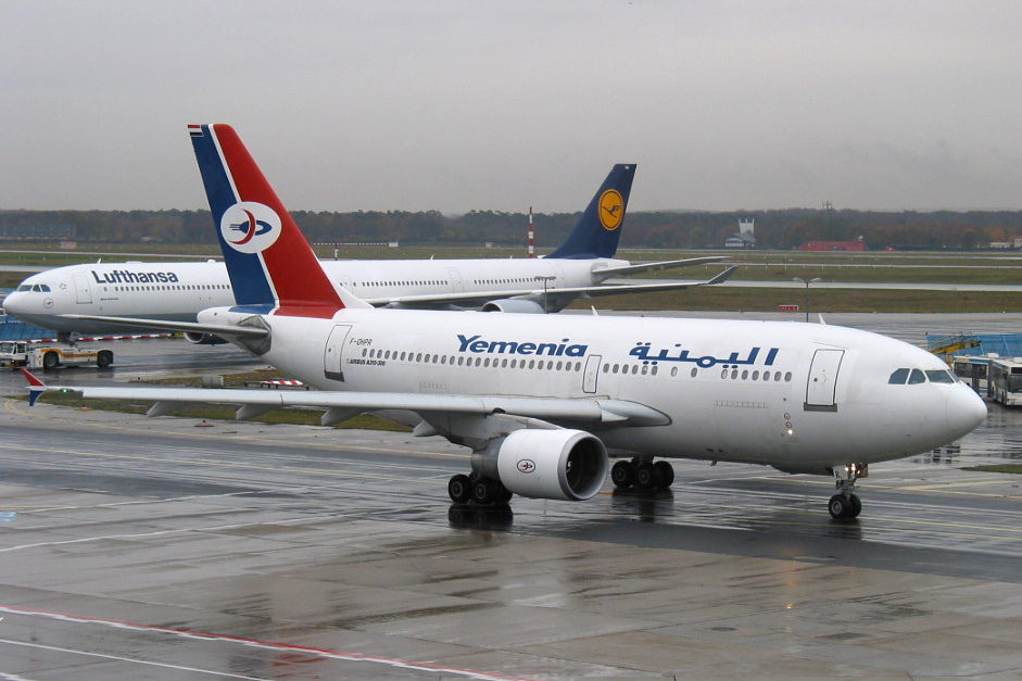 Yemenia Airbus A310 F-OHPR, note the Lufthansa Airbus A340-600 behind, the longest ever production passanger plane, compared to the short wide-body A310.